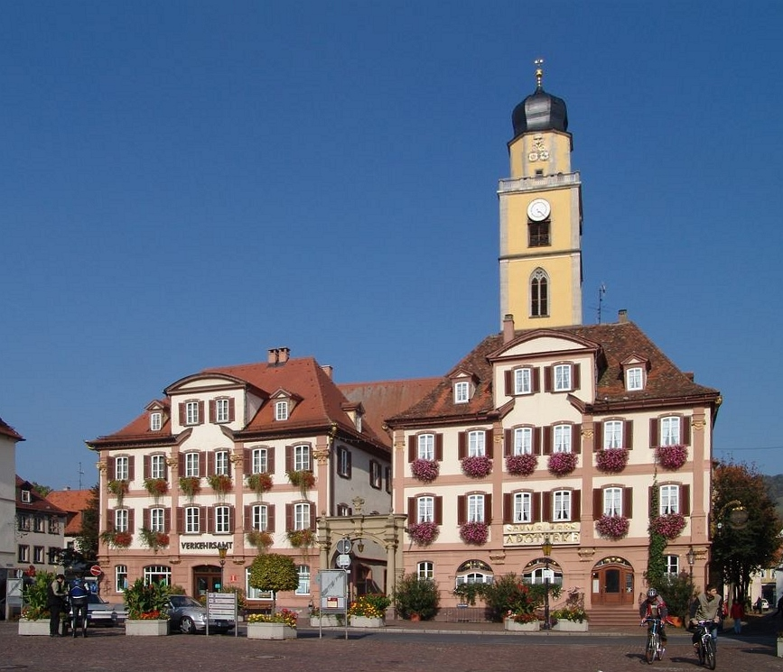 Twin houses at the market place in Bad Mergentheim, Germany